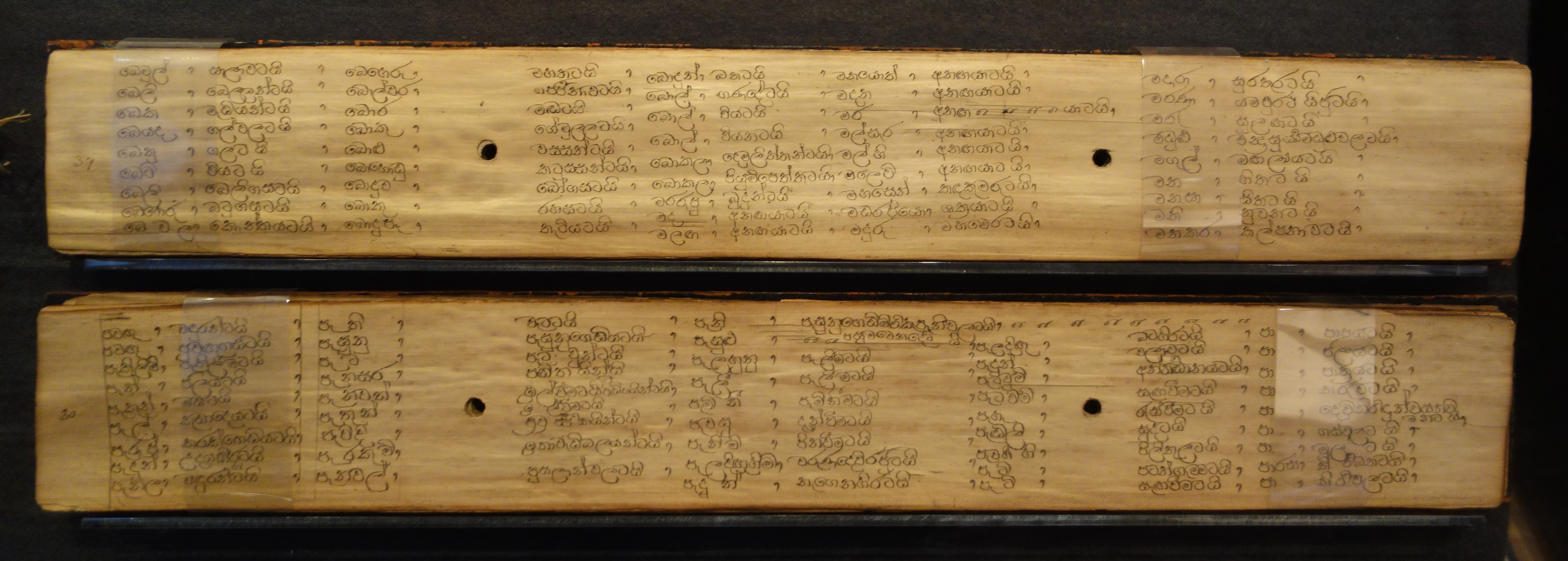 Exhibit in the Robert C. Williams Paper Museum, Atlanta, Georgia, USA. This work is old enough so that it is in the public domain.